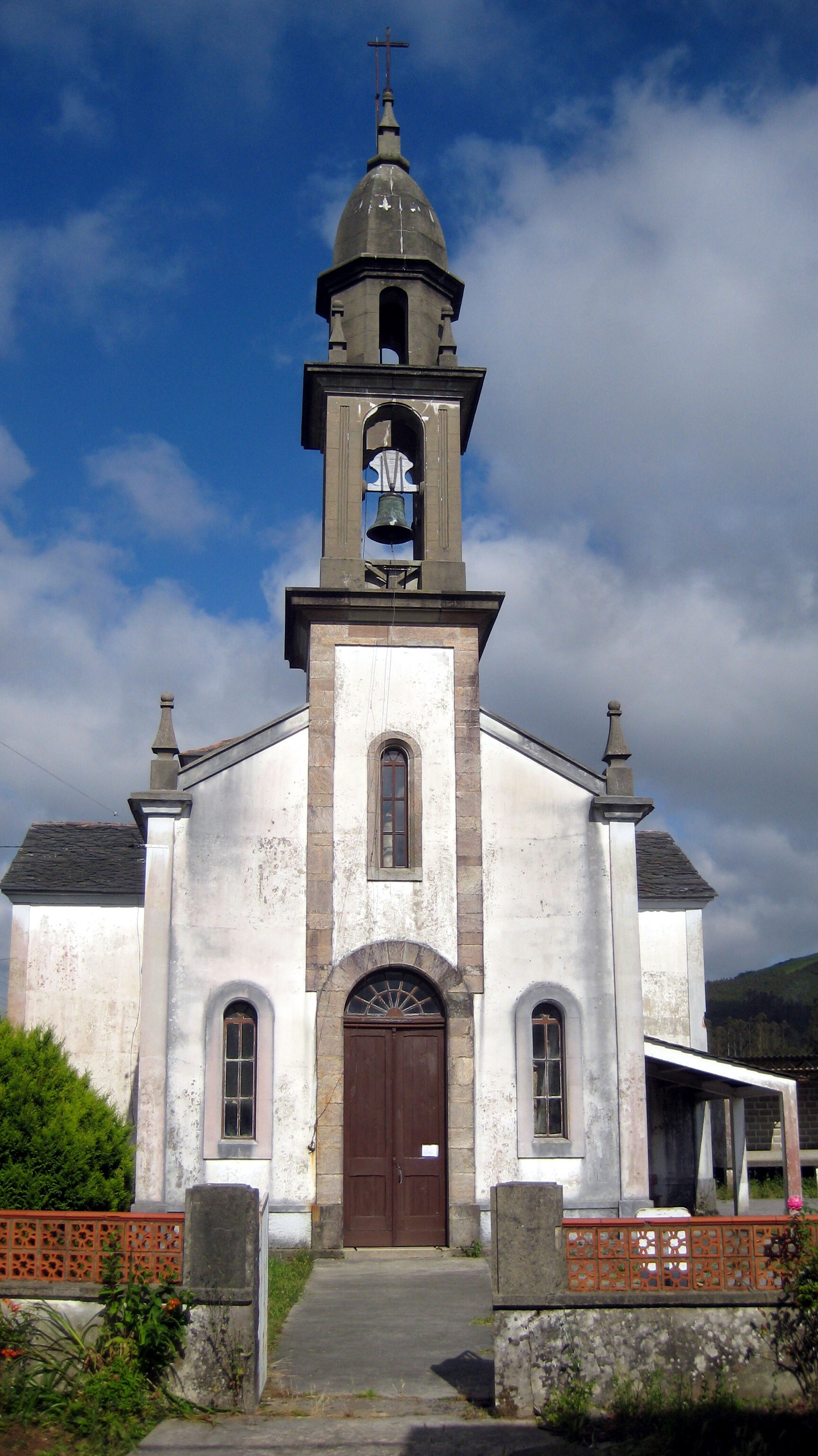 O Ermo Parish Church, Ortigueira, A Coruna, Spain